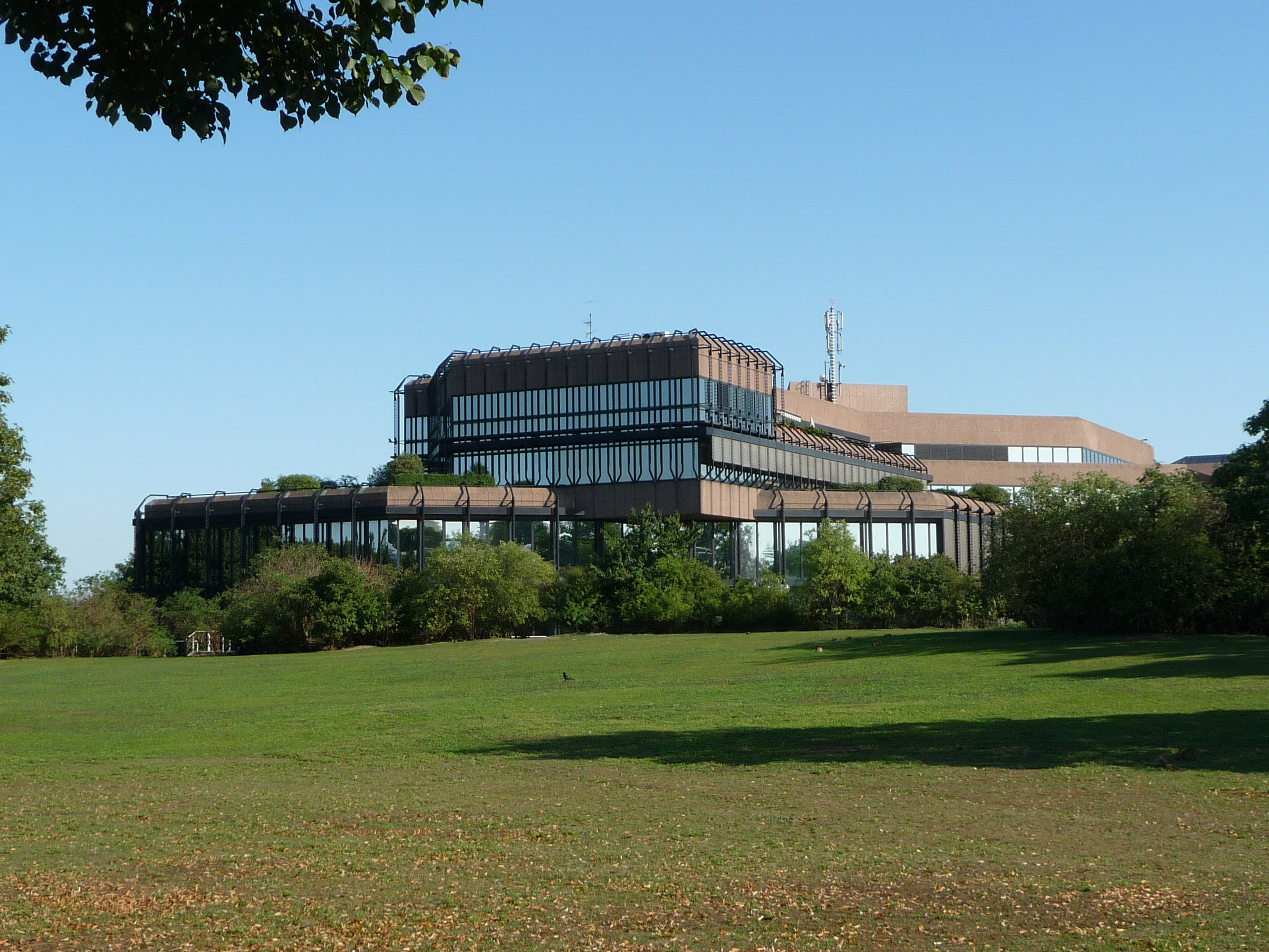 Neuostheim